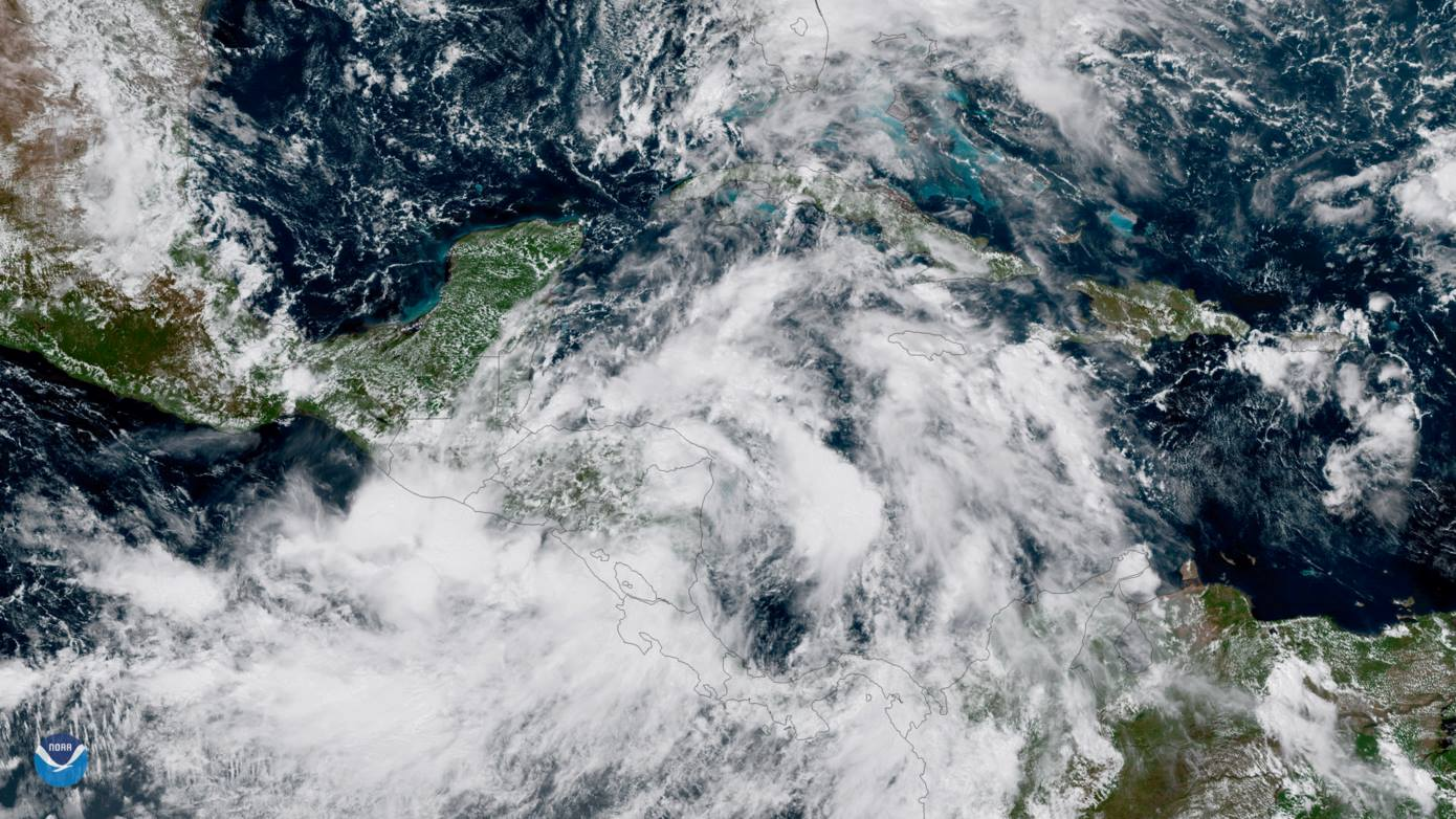 GOES-16 captured this geocolor image of Tropical Storm Nate on October 5, 2017. The center of Nate is inland over northeastern Nicaragua, and little change in strength is expected until the center moves over the northwestern Caribbean Sea. After that, a combination of warm sea surface temperatures and light shear should allow for at least steady strengthening. Created by our partners at the Cooperative Institute for Research in the Atmosphere, the experimental geocolor imagery enhancement displays geostationary satellite data in different ways depending on whether it is day or night. In daytime imagery (shown here), land and shallow-water features appear as they do in true-color imagery. Please note: GOES-16 data are currently experimental and under going testing and should not be used operationally.